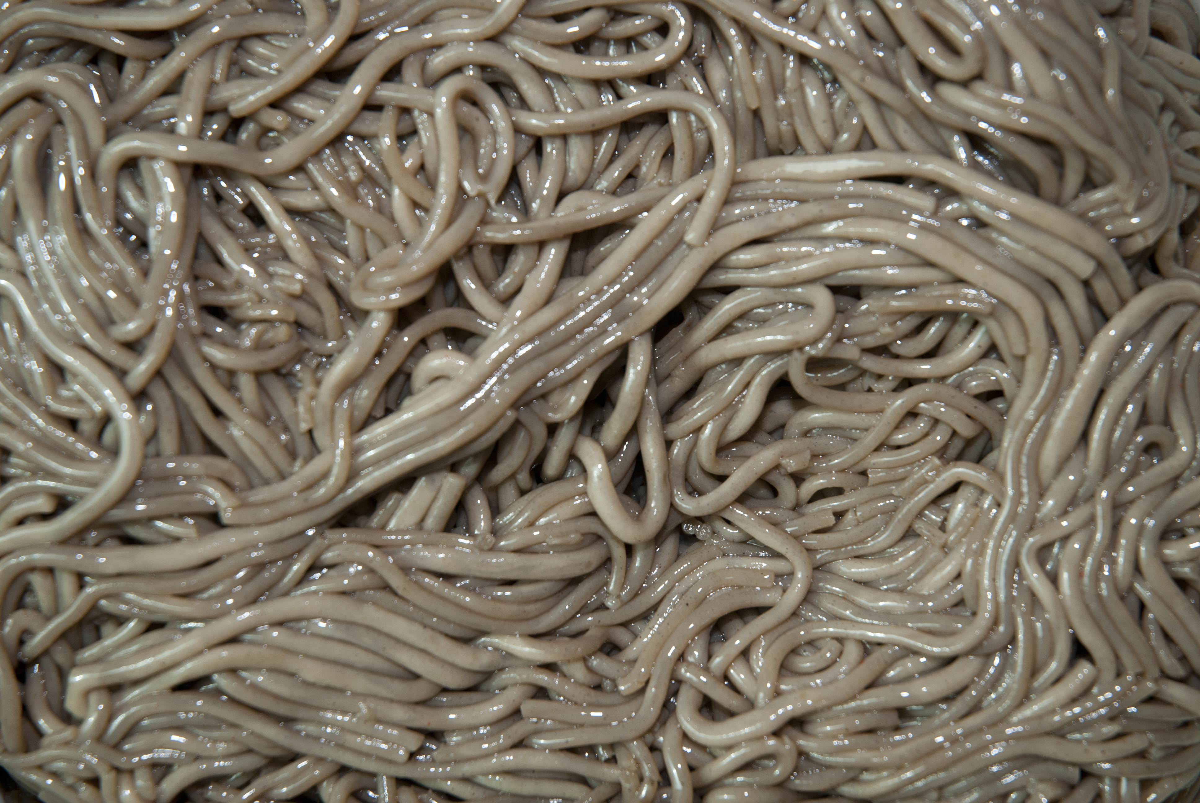 Naengmyeon, a Korean cold noodles